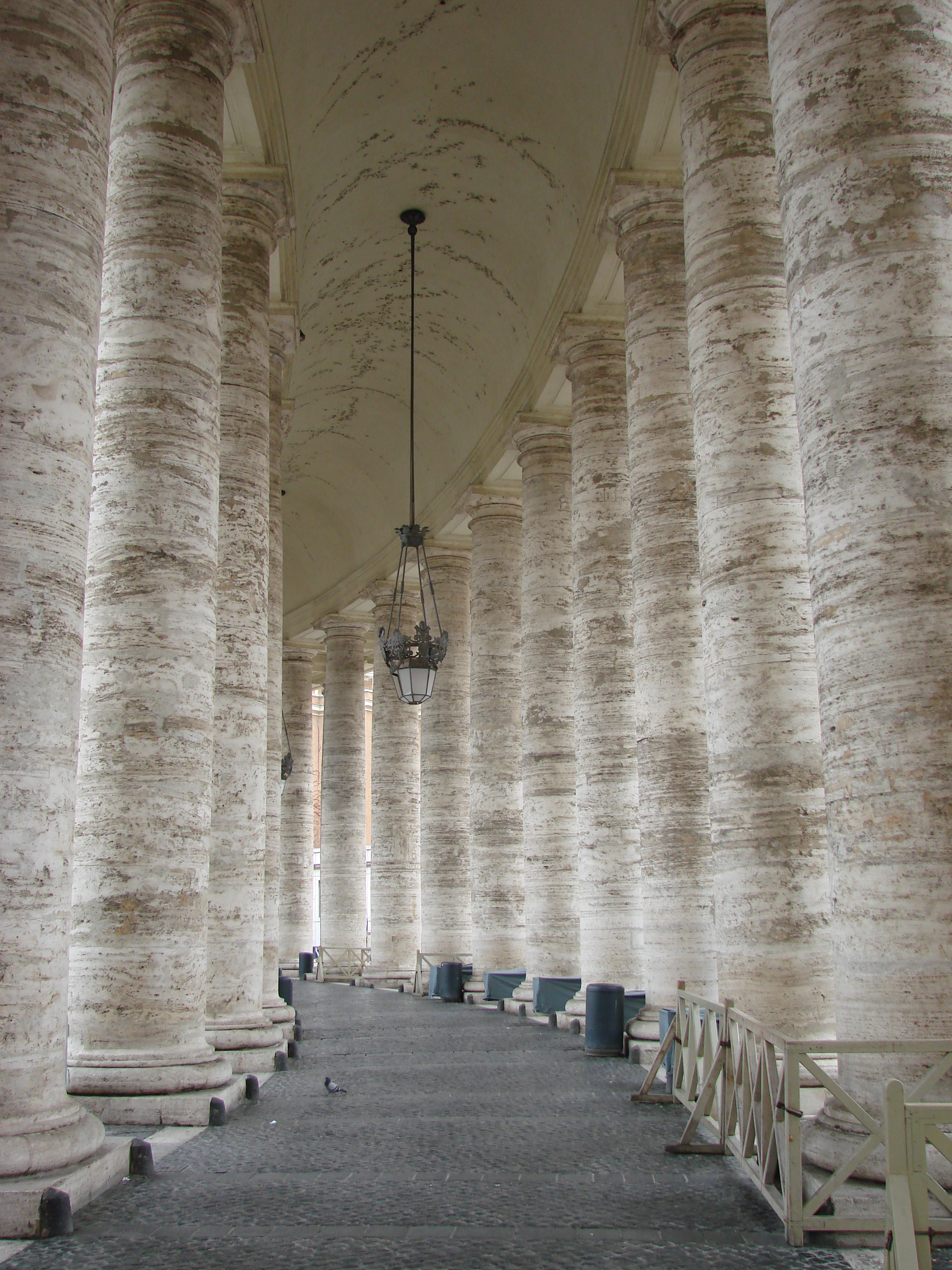 Vatican City